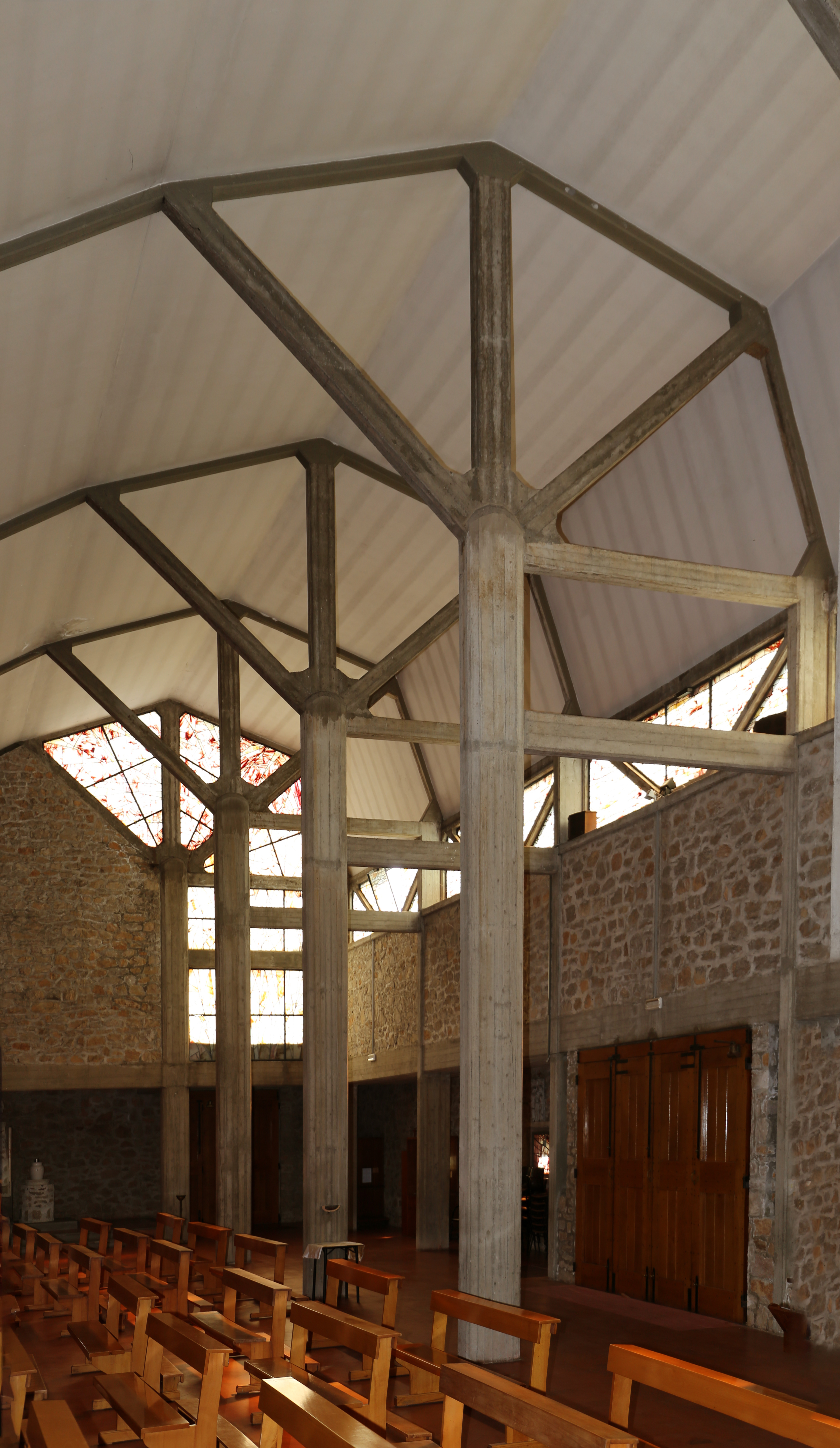 Sacro Cuore Immacolato di Maria (Pistoia)